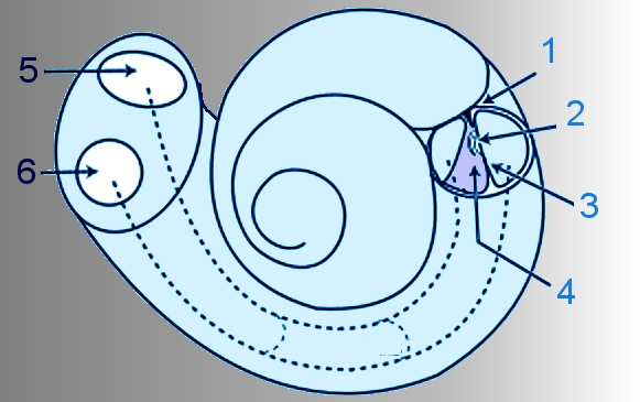 Noise transmission paths through cochlea